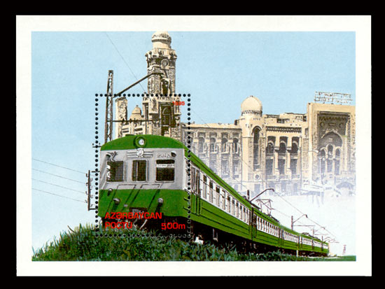 N 379 - 500 man. Electric train on the background of the old Sabuncu railway station. Baki